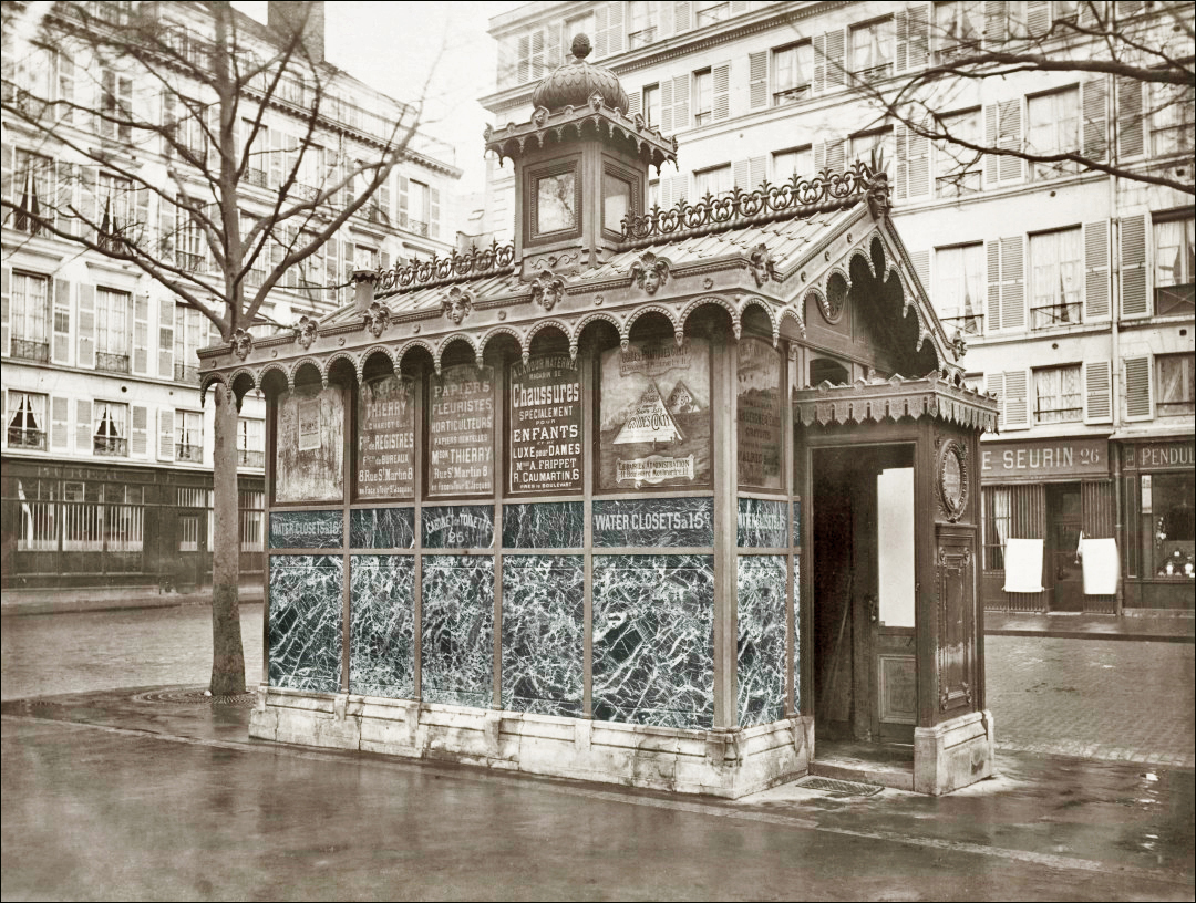 Chalet of necessity or public toilets in 1875 in Paris.